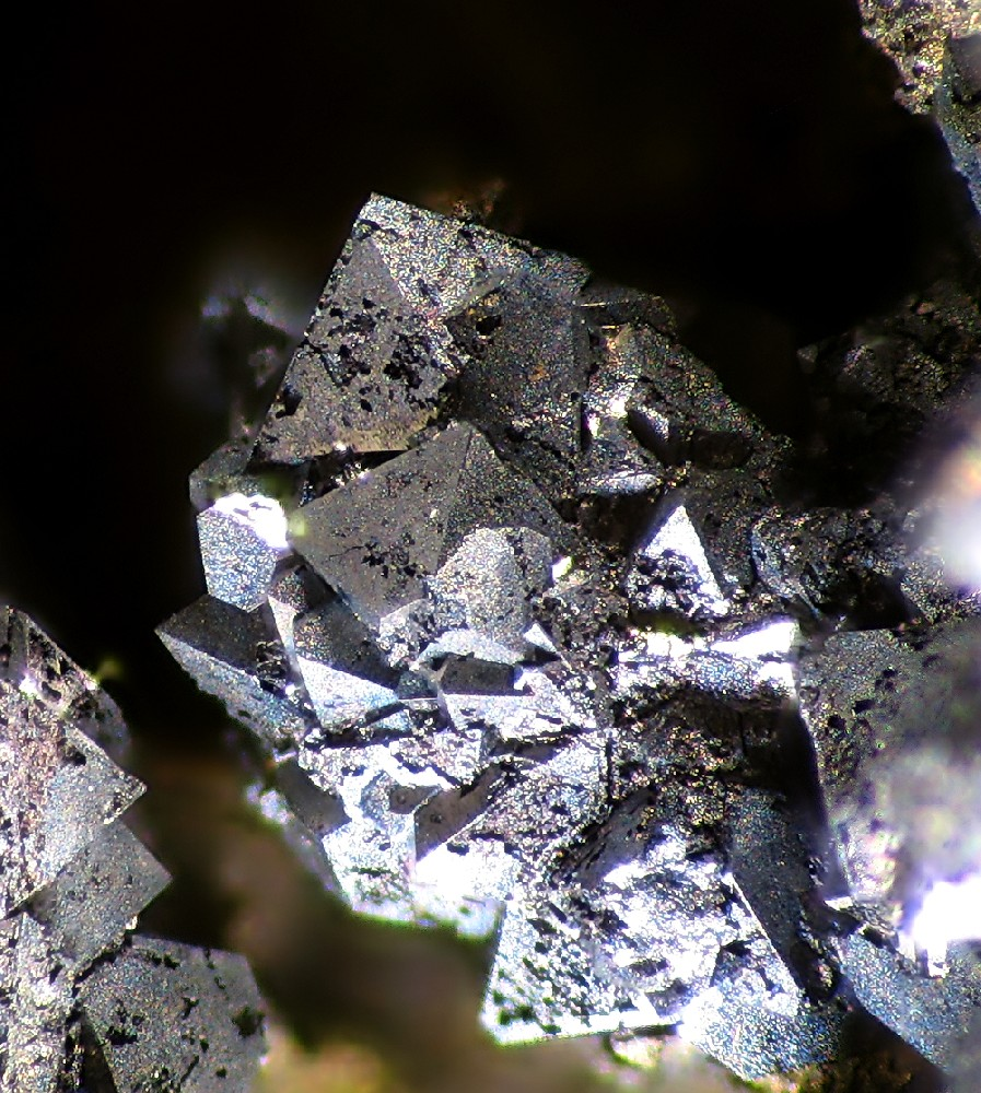 Krut'aite Locality: El Dragón mine, Antonio Quijarro Province, Potosí Department, Bolivia (Locality at ) Picture width 2.5 mm. Collection and photograph Christian Rewitzer